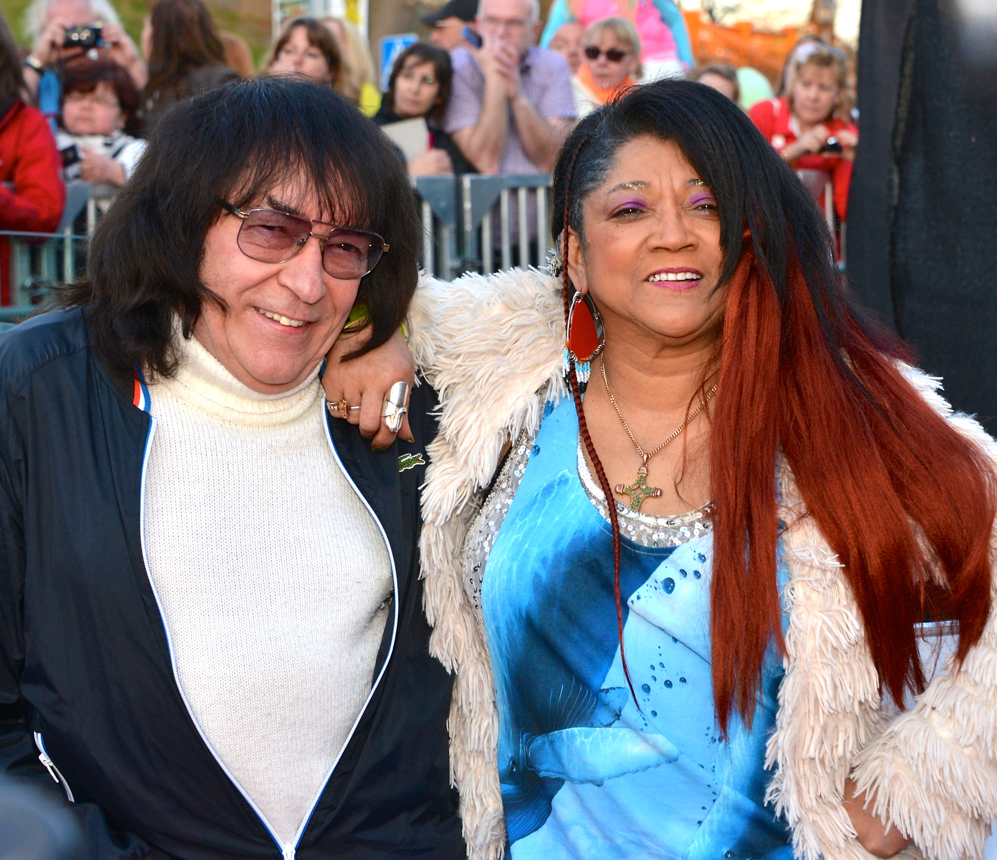 Svenne & Lotta during the opening of ABBA: The Museum May 6, 2013.